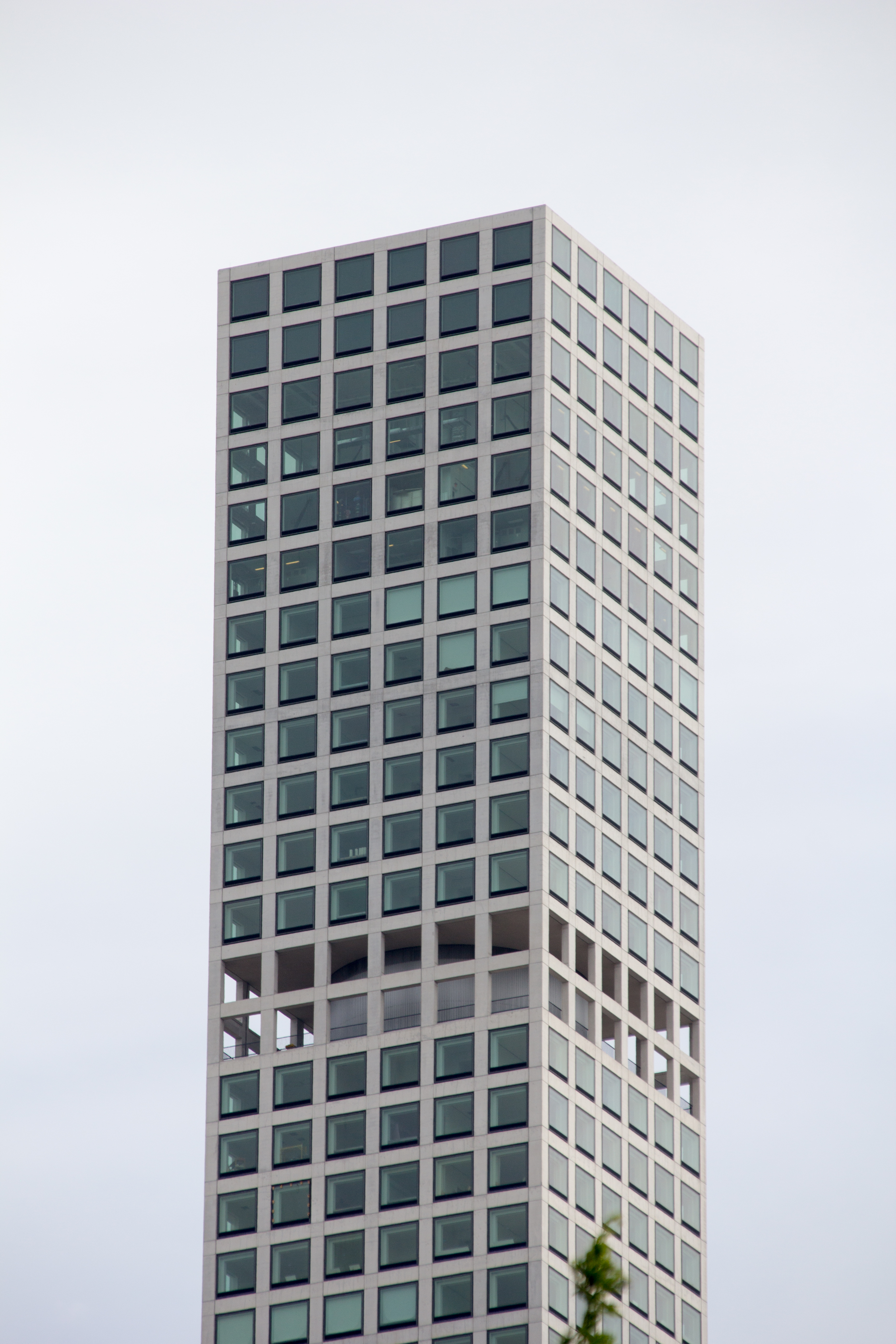 Manhatten, New York City